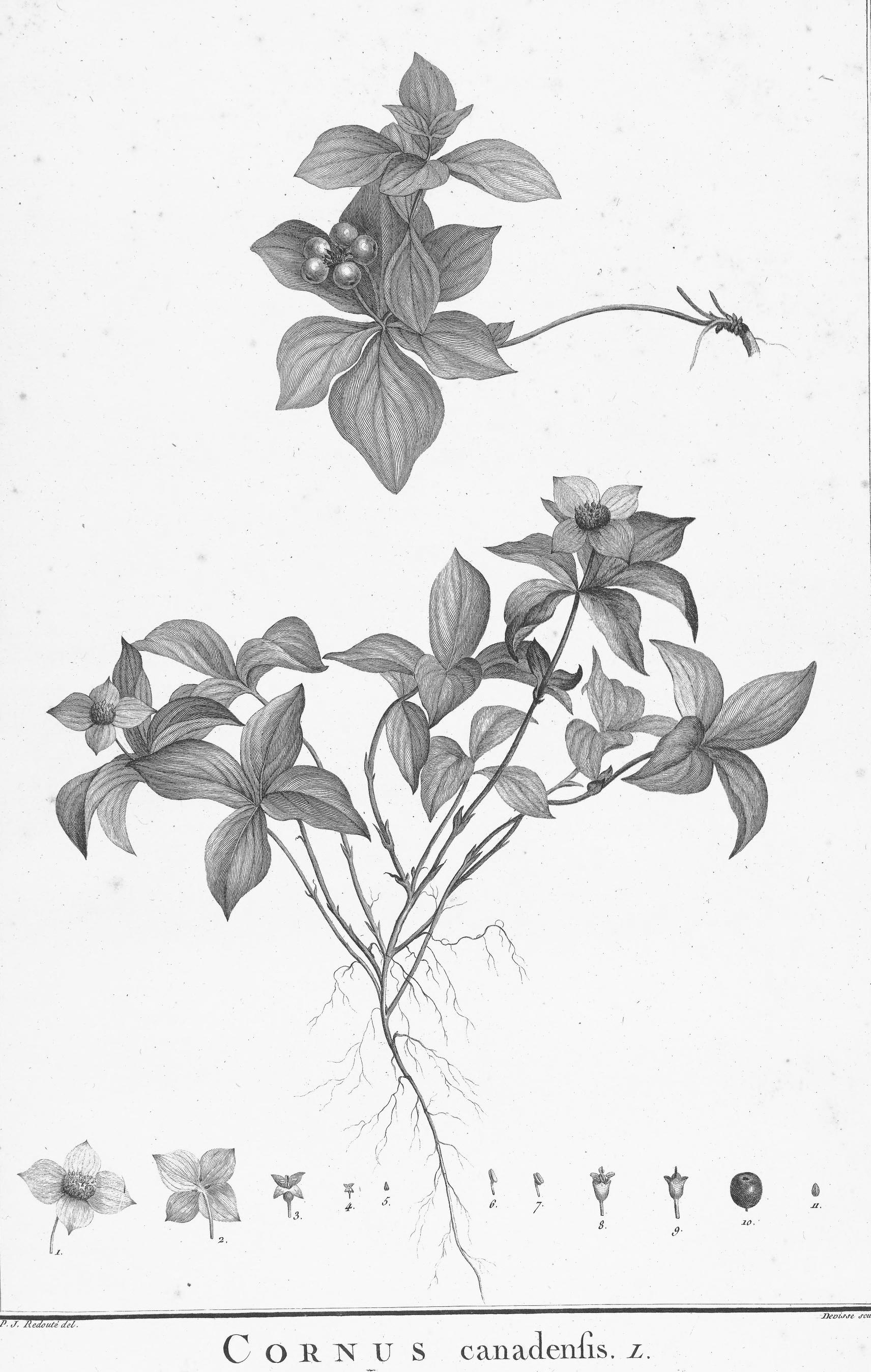 Plate from book